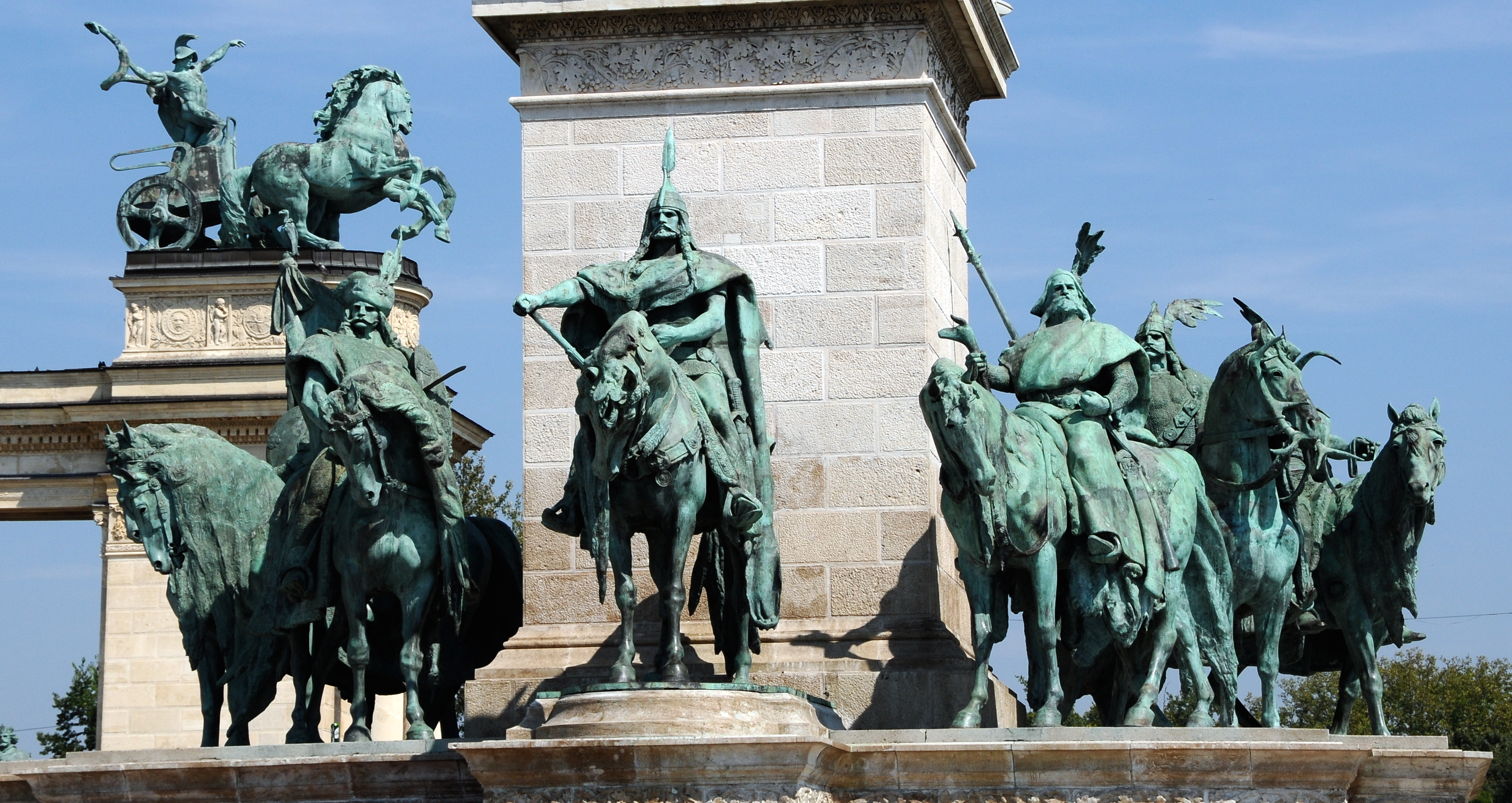 Front view of the statues of the Seven chieftains of the Magyars. Statues placed in Budapest (Hungary), on the 'Hosok tere' square, also know as the 'Heroes' square'